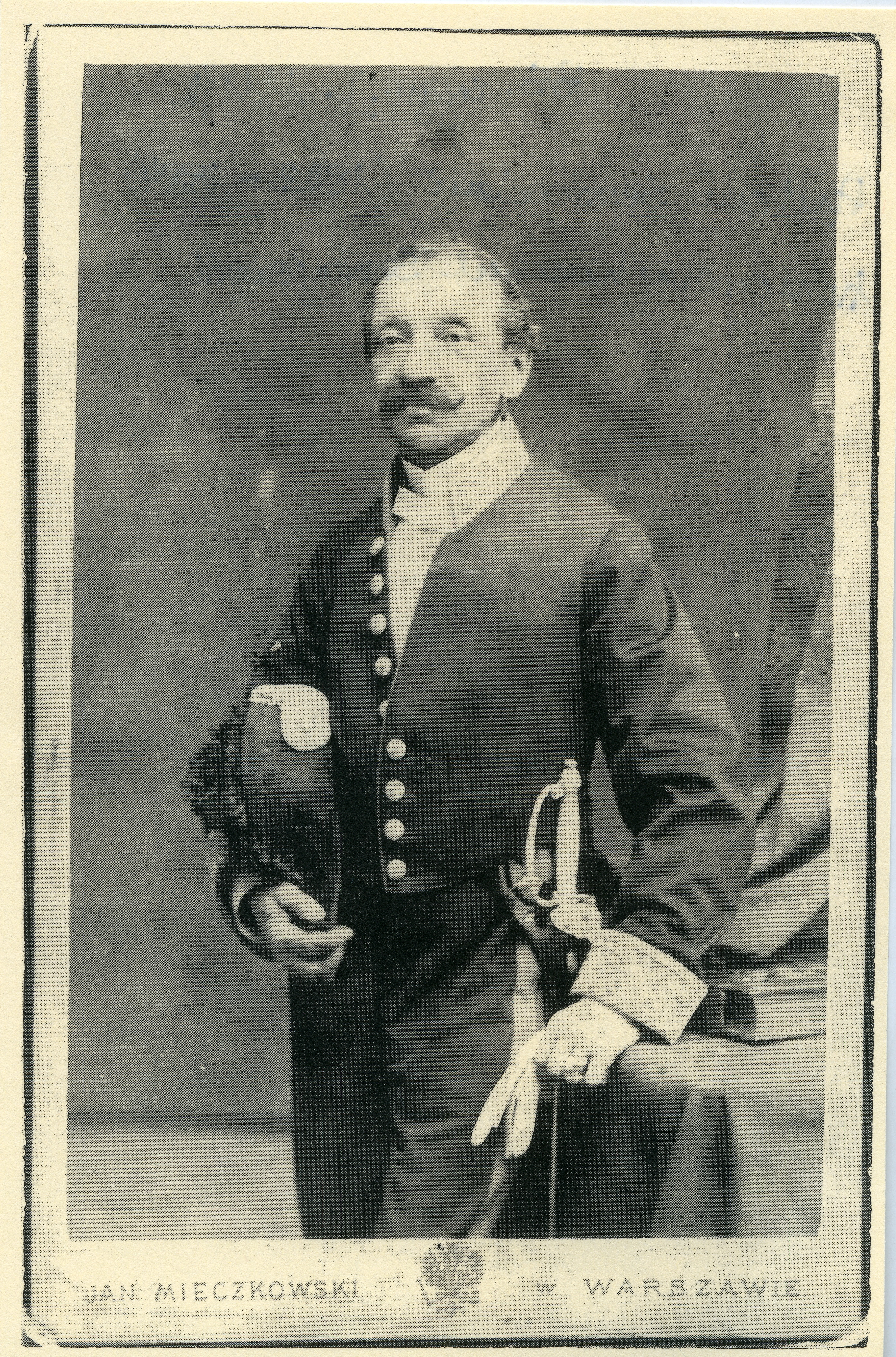 Antoni Semadeni (1823-1884), a confectioner, consul of Switzerland in Warsaw.